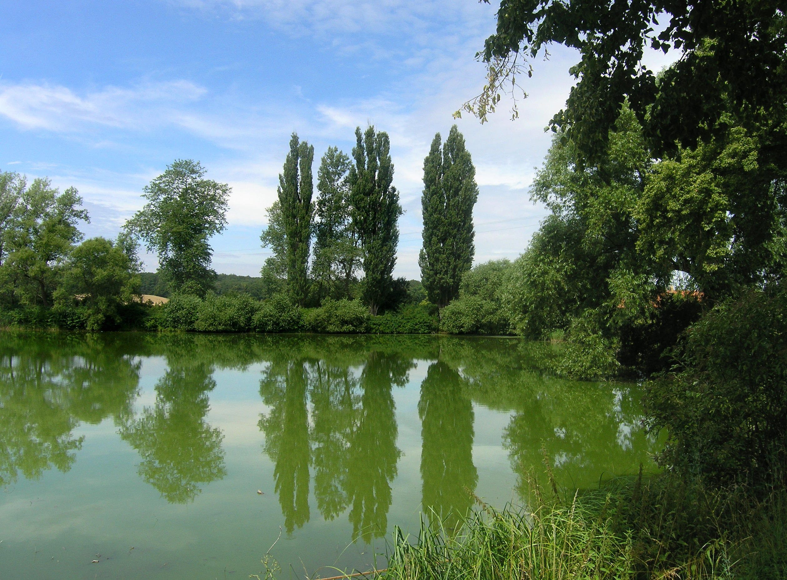 Common pond in Dománovice, Czech Republic